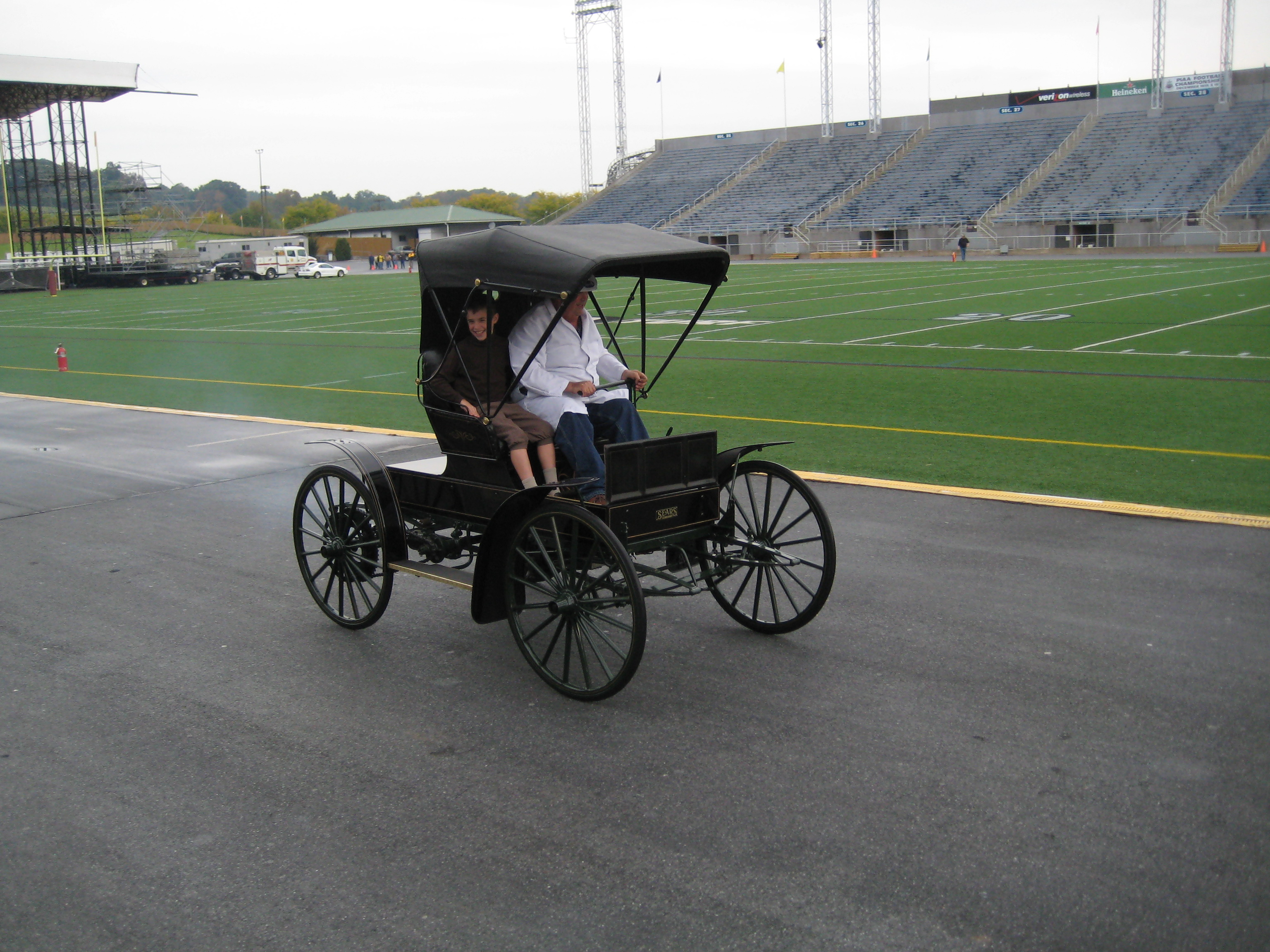 On Friday morning we got to see some of the more interesting vehicles tour the old stadium track. AACA Fall Meet, Hershey, Pennsylvania, October 2009. There were races with four of the earliest cars present.